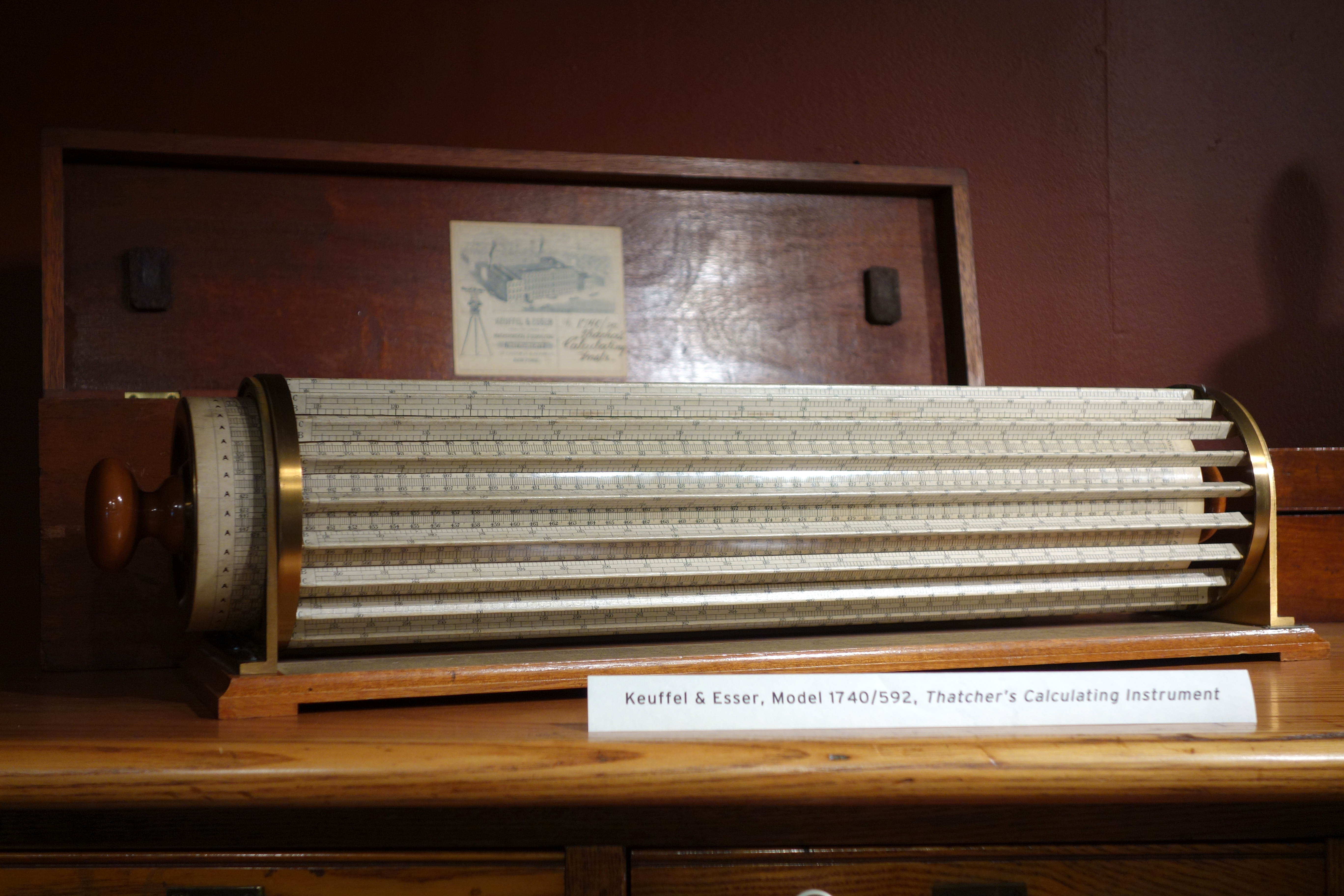 MIT Slide Rule Collection, MIT Museum, Cambridge, Massachusetts, USA. The museum permitted photography without restriction.